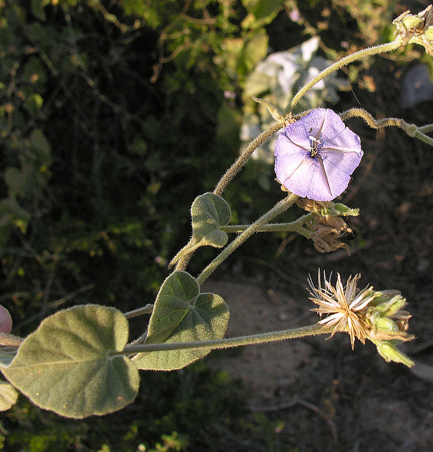 A Felt Leaf Morning Glory, found mainly in southern Baja California. Photo from near the town of Todos Santos.